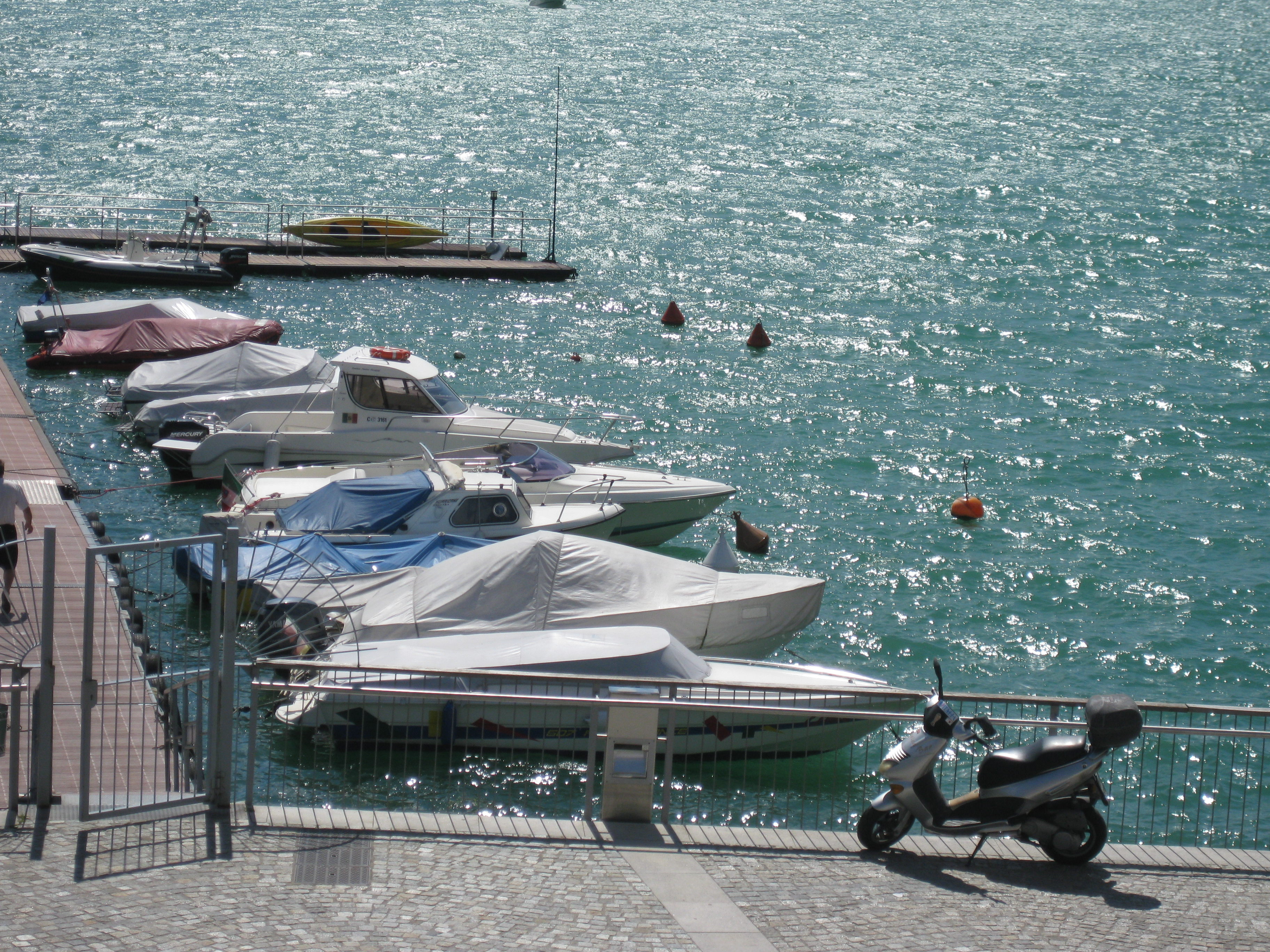 The little port in Porlezza, Lombardy, Italy.